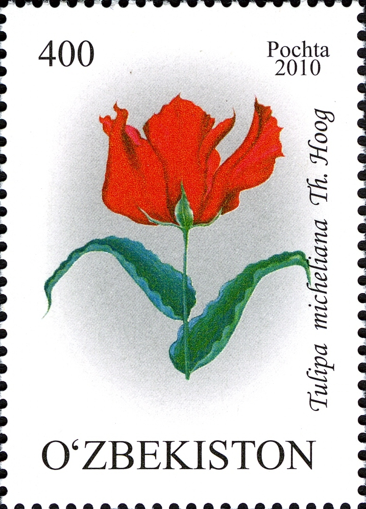 Stamps of Uzbekistan, 2010